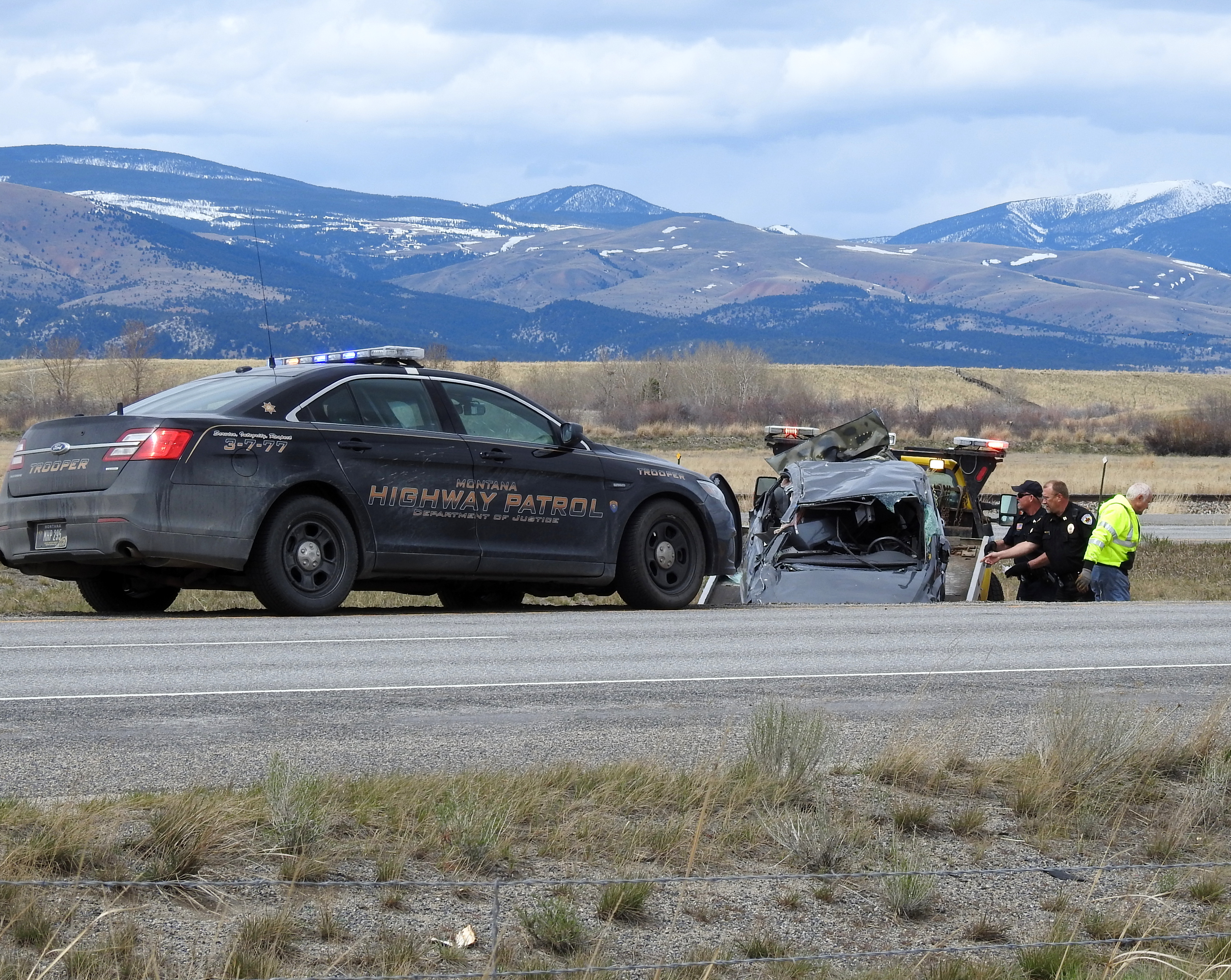 Rollover Accident I-90 in Deer Lodge County, Montana.